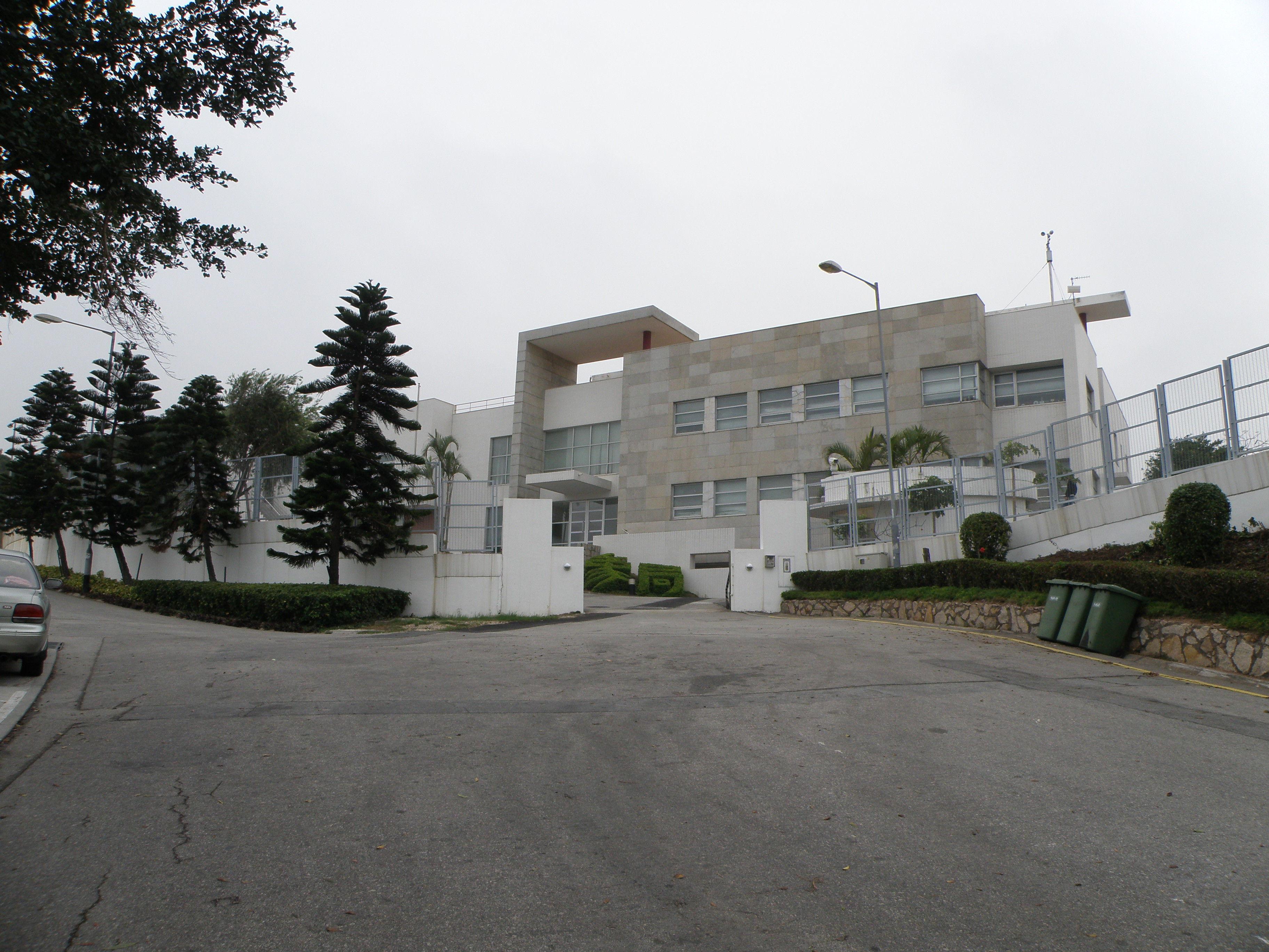 Headquarters building of the Macao Meteorological and Geophysical Bureau